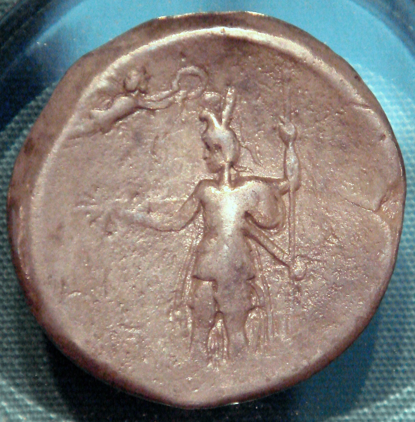 Victory_coin_of_Alexander_standing